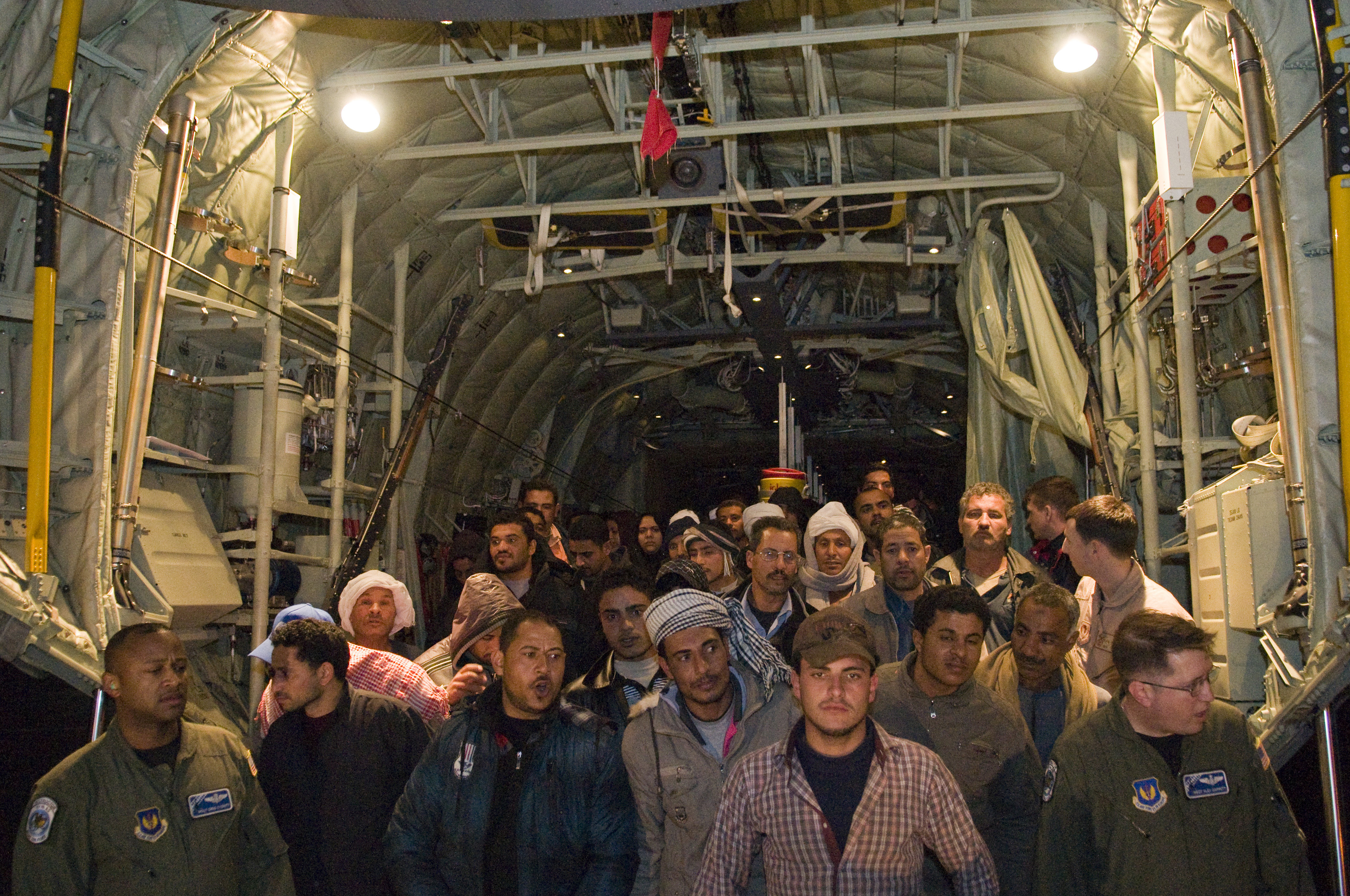 On March 10, Egyptians arrive back home after a long flight from Djerba Zarzis Airport in Tunisia to Cairo, Egypt. These Egyptian citizens are among tens of thousands who have fled conflict in Libya to Tunisia, where a humanitarian crisis is unfolding. This C-130J, flown by the 37th Airlift Squadron from Ramstein Air Base, Germany, is part of a contingent of aircraft from the 37th and the 26th U.S. Marine Expeditionary Unit that are getting the evacuees home. Since the operations began March 4, more than 750 passengers have been shuttled to Cairo. The airlift is part of a broader U.S. government effort led by the Department of State to deal with the crisis. Combat Camera Detachment USEUCOM Photo by Staff Sgt. Brendan Stephens Date Taken:03.10.2011 Location:CAIRO, EG Related Photos